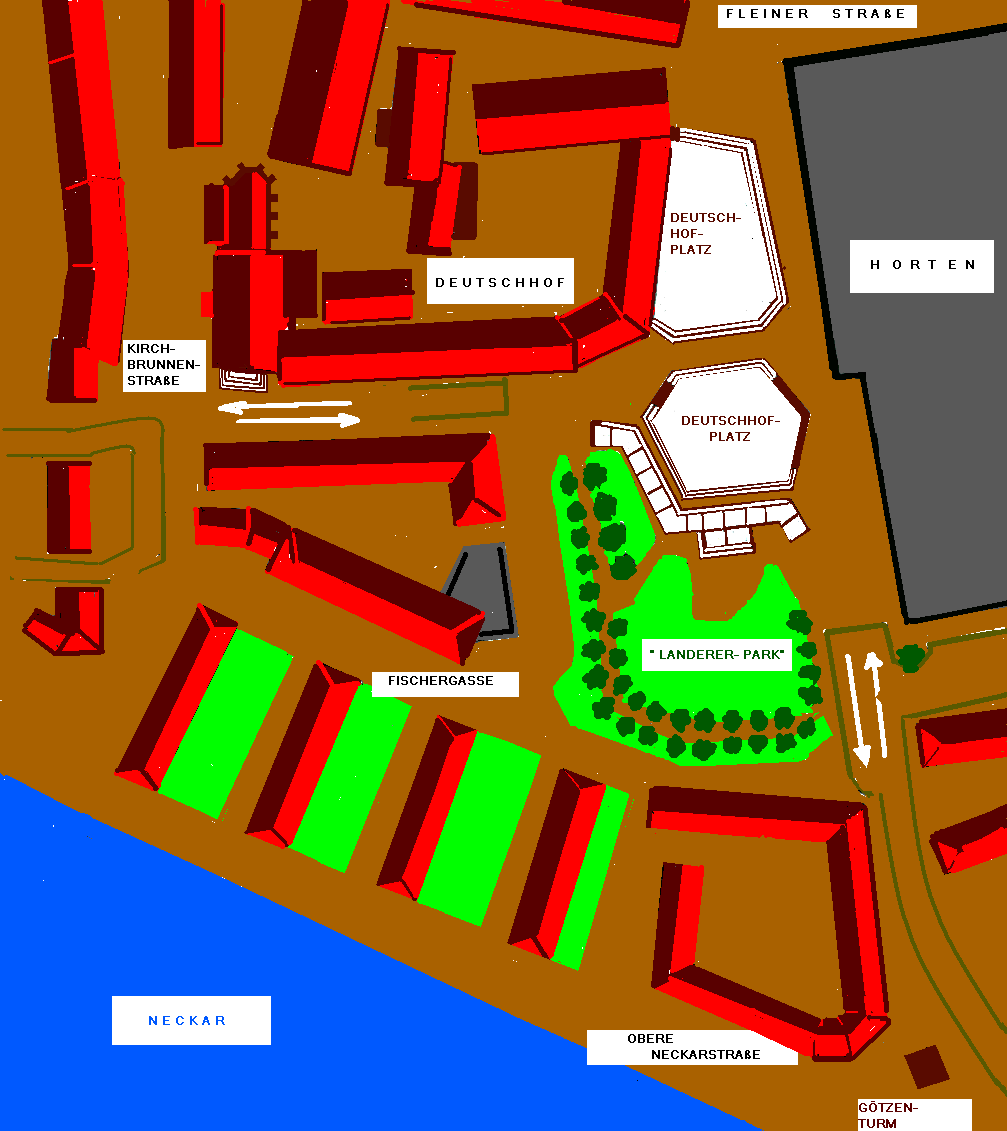 File:Heilbronn November 1985 Innenstadtplanung einer Tiefgarage mit darüberbefindlichem "Deutschhofplatz" und "Landerer-Park".PNG